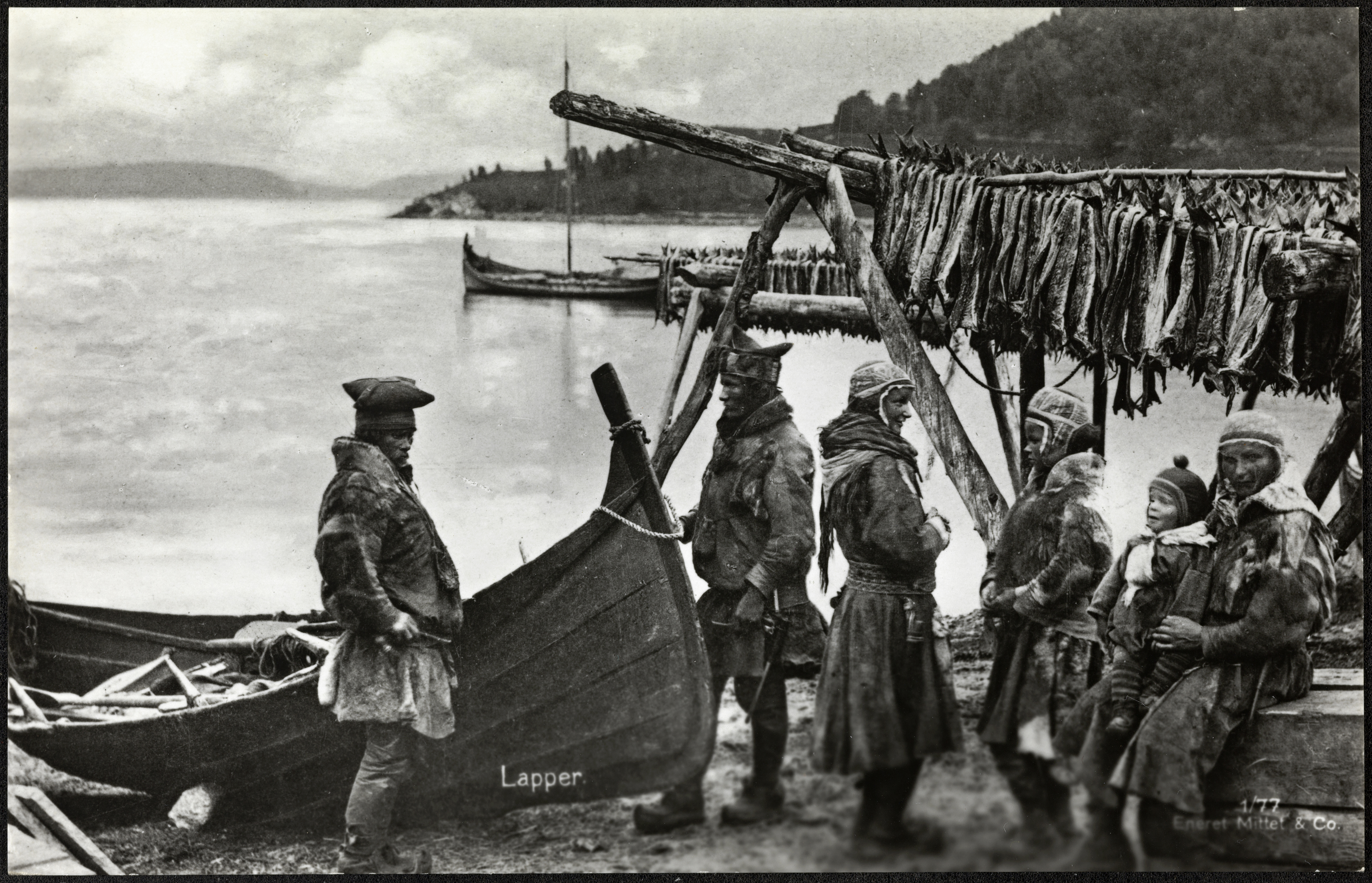 Image from "Postcards, Sami" , an album of 19 images uploaded to by Nasjonalbiblioteket (National Library of Norway) in 2016. The image on Flickr is marked with "No known copyright restrictions».